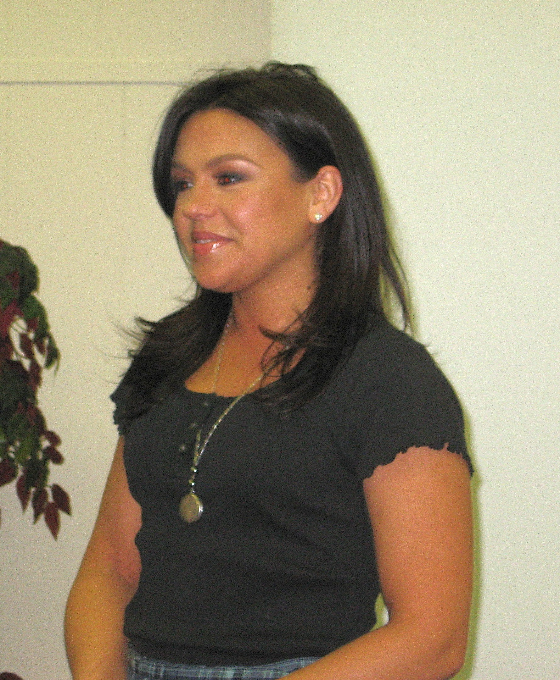 Rachael Ray in Enterprise, AL. She, along with many others, sponsored a senior dinner and the Senior Prom for Enterprise High School in Enterprise Alabama, which was hit by a tornado March 1, 2007. This photo was taken at a "Meet and Greet" for EHS Seniors and their parents. Press were not allowed to attend.